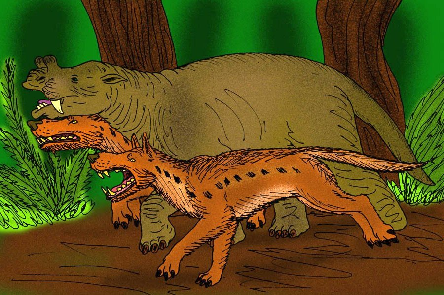 Reconstruction of the primitive dinoceratan Bathyopsis fissidens being pursued by a pair of the mesonychid species Mesonyx obtusidens, from early Eocene Wyoming.